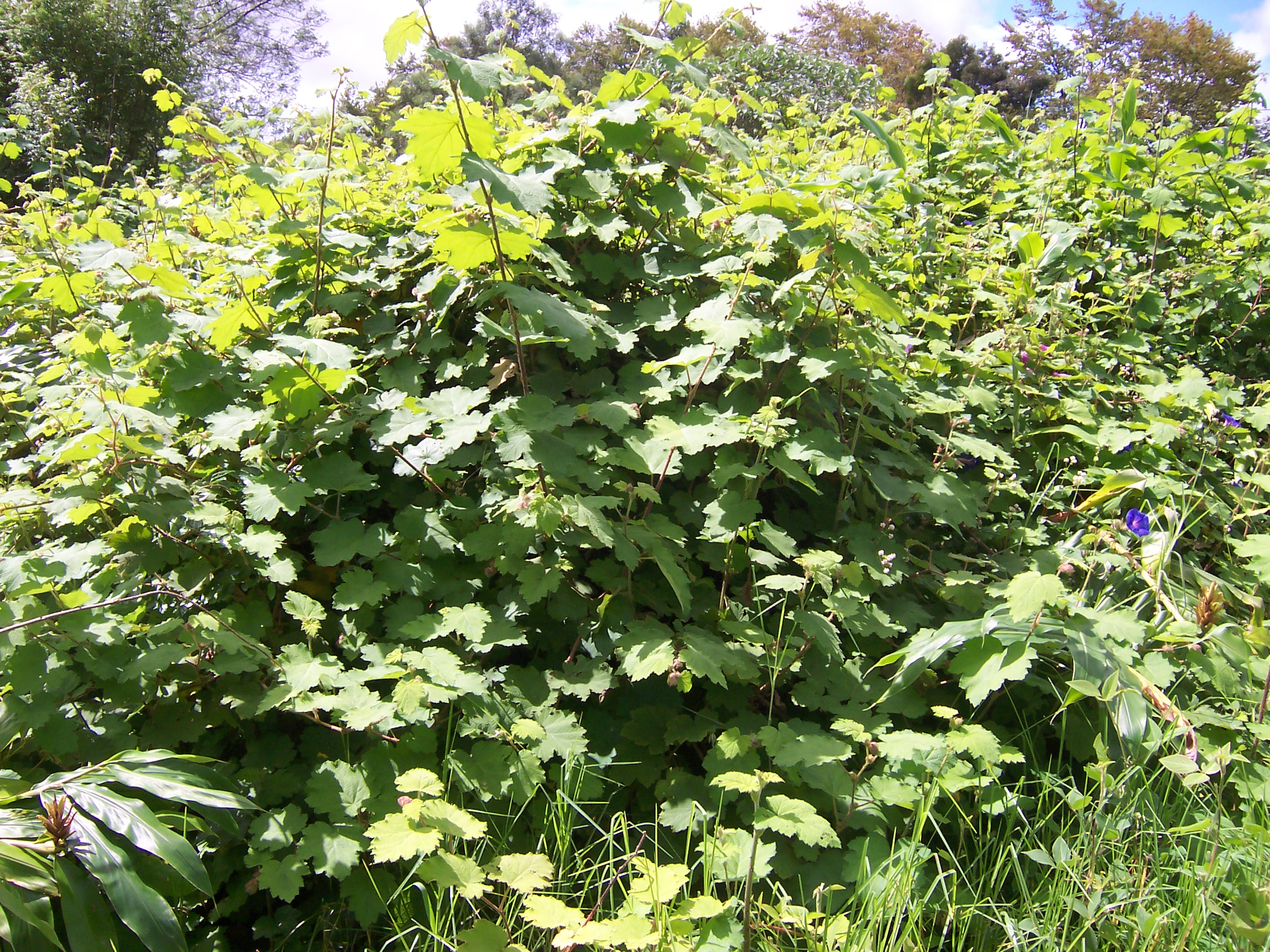 Rubus alceifolius bramble (Réunion island)